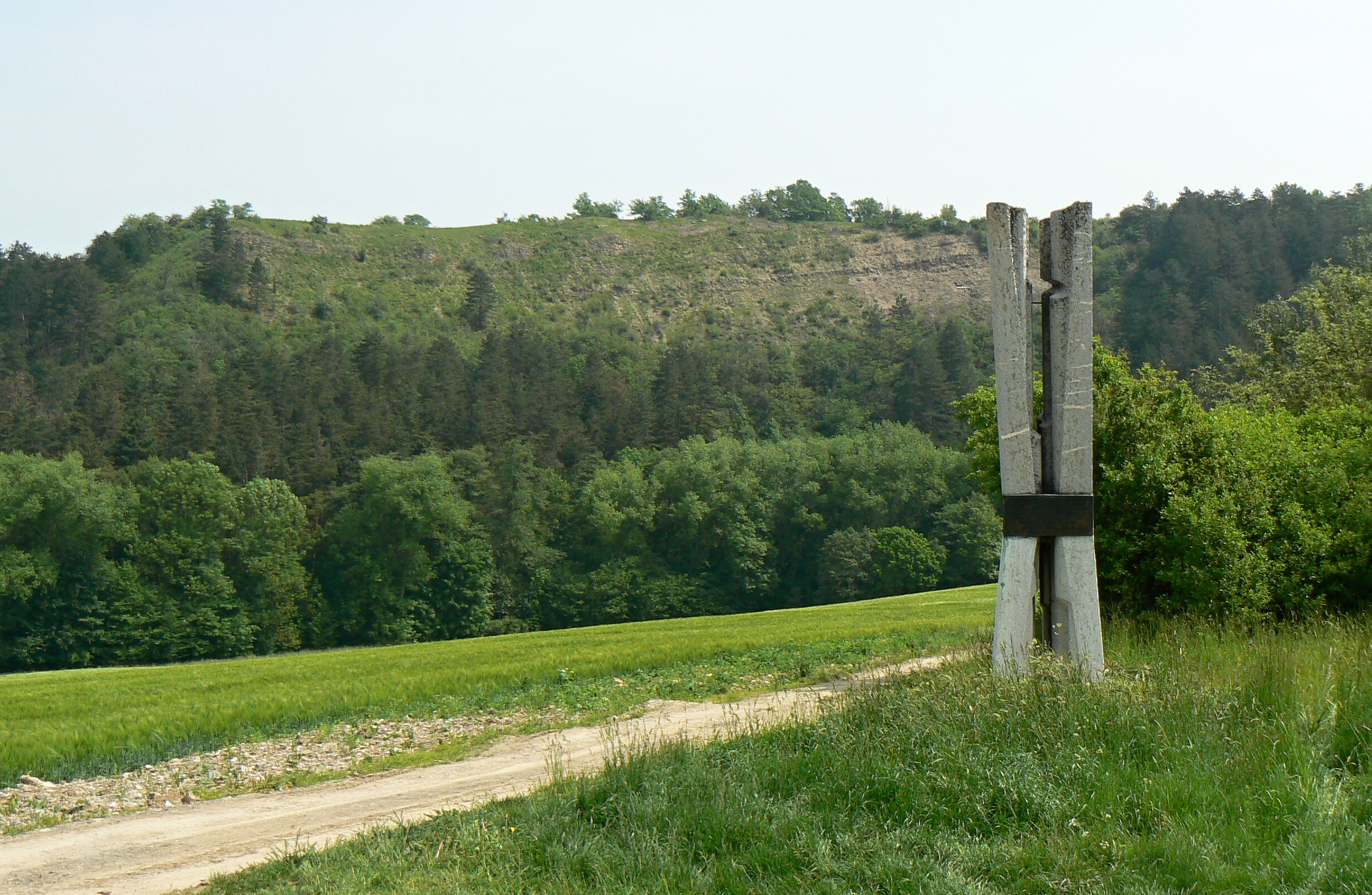 National natural monument Klonk near Suchomasty, Beroun District